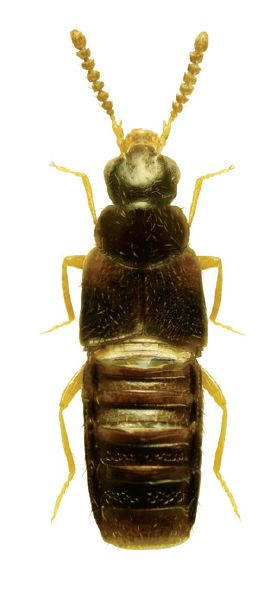 Dorsal view of Gyrophaena (Phaenogyra) meduxnekeagensis (apical part of abdomen removed).